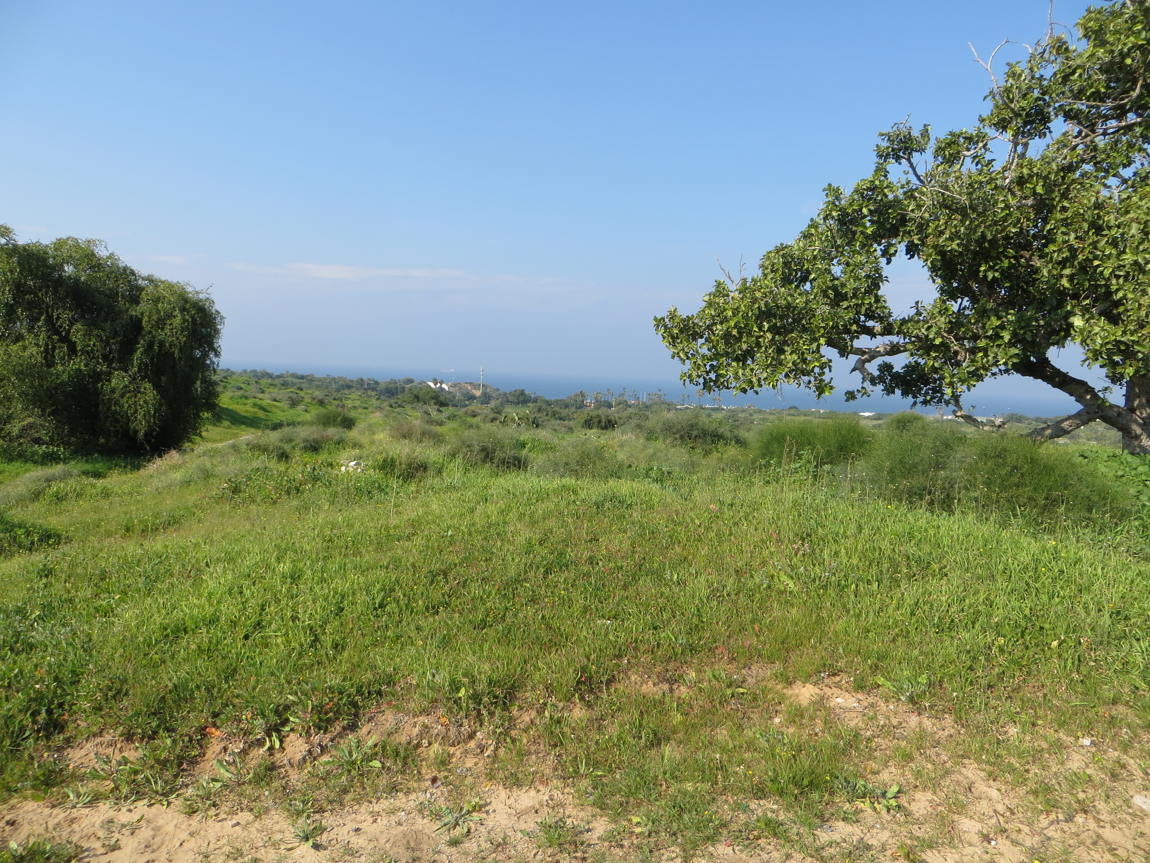 Al-Jura was a village near the town of al-Majdal Asqalan. Its remains are within the boundaries of present-day Ashkelon, Israel. The photograph, taken in 2015, shows part of the area where the village used to stand.